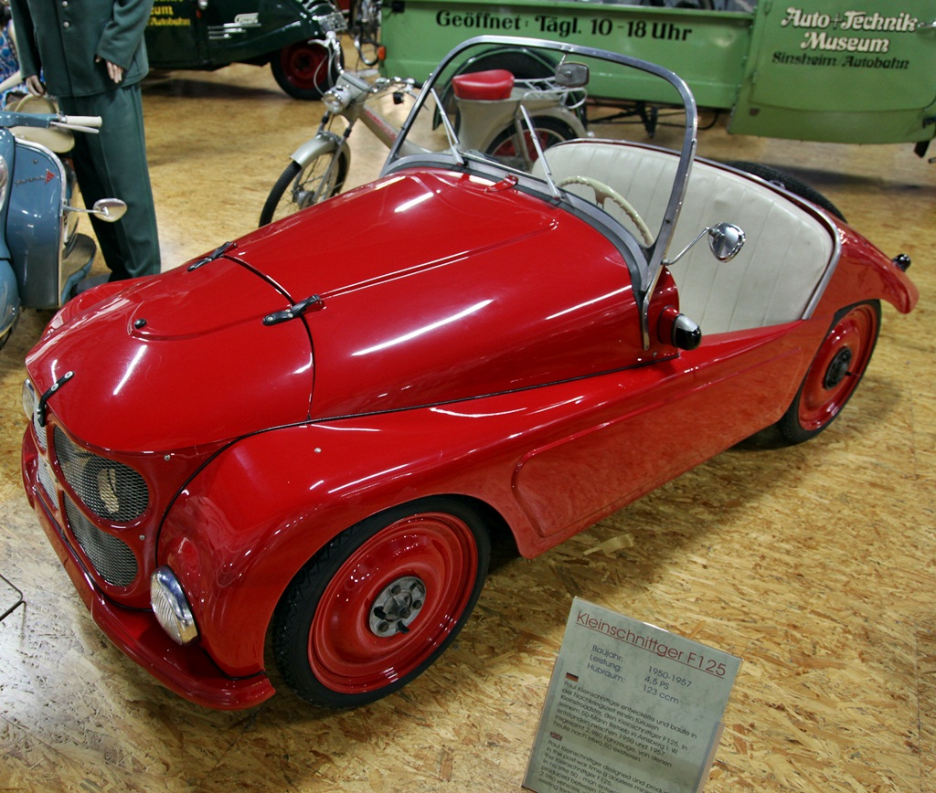 F125 125ccm 4.5 PS convertible